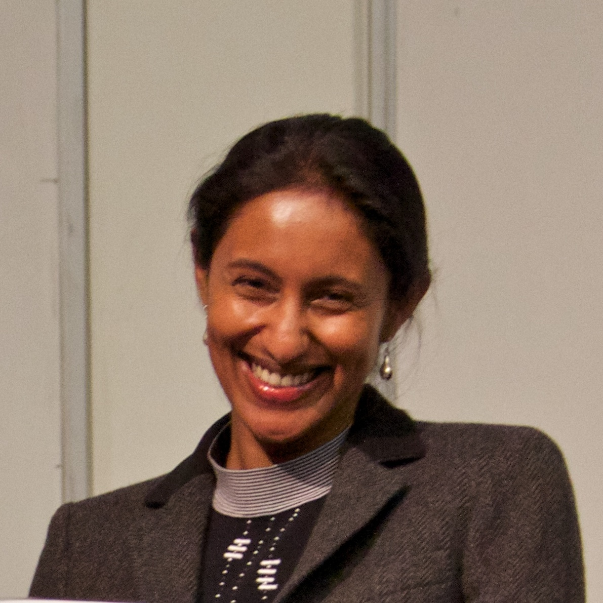 Royal Astronomical Society prizes being awarded at the National Astronomy Meeting 2012, Manchester. Roger Davies on the left, Hiranya Peiris on the right receiving the Fowler Award (A).